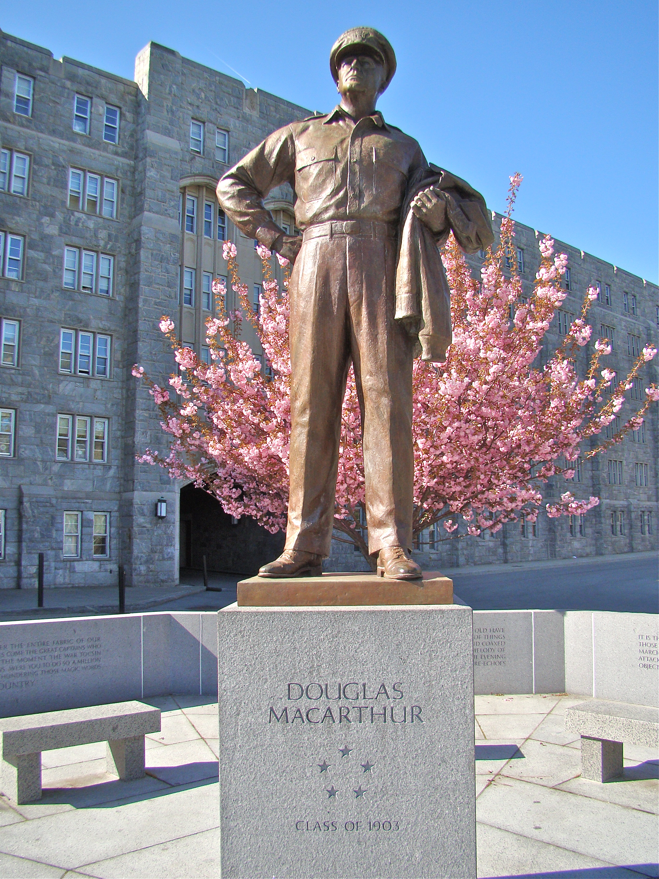 MacArthur Monument at the United States Military Academy at West Point, 14 April 2010